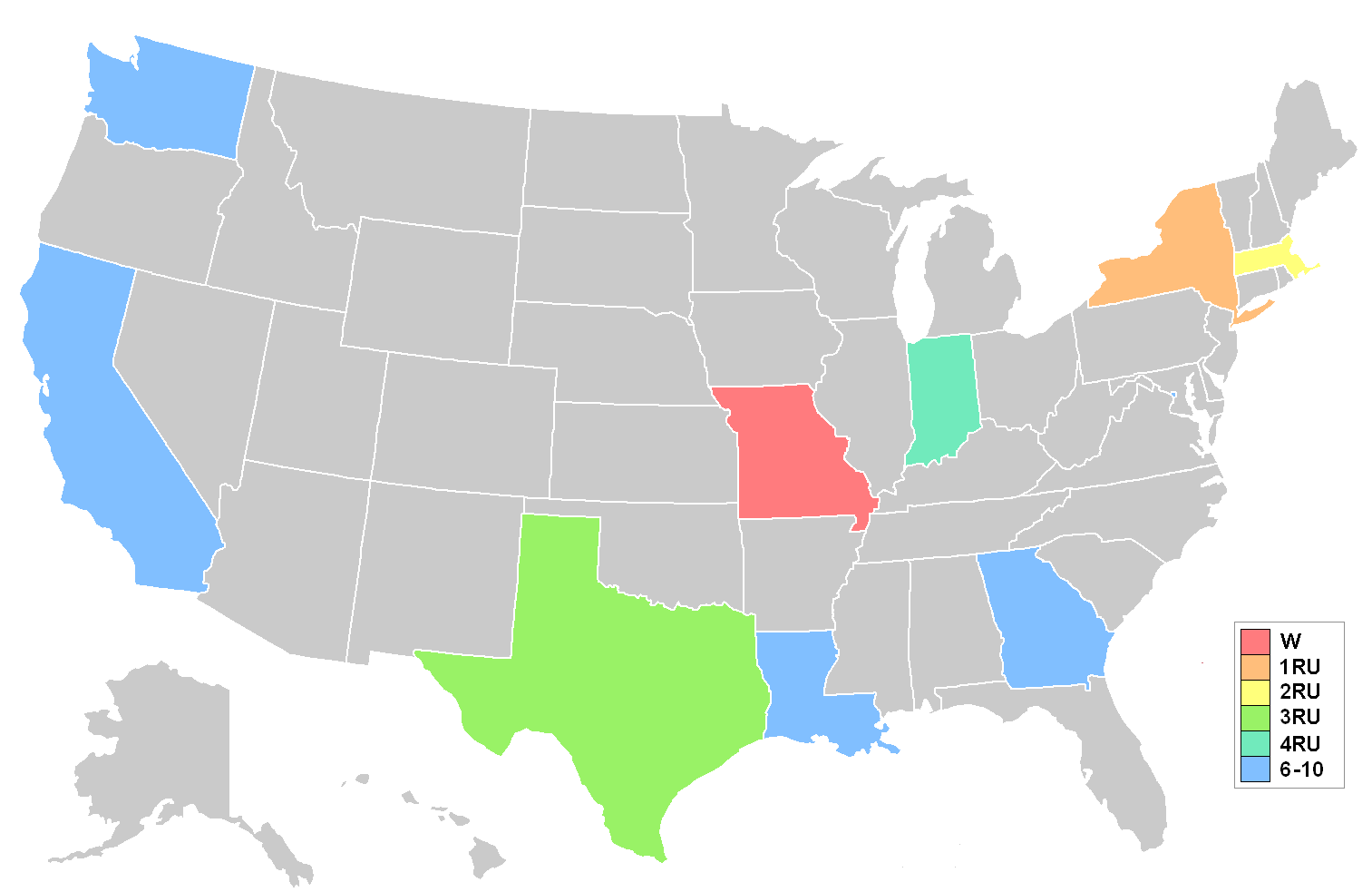 Map showing placements at the Miss Teen USA 2001 pageant. Key on graphic shows colour coding for break down of placements.